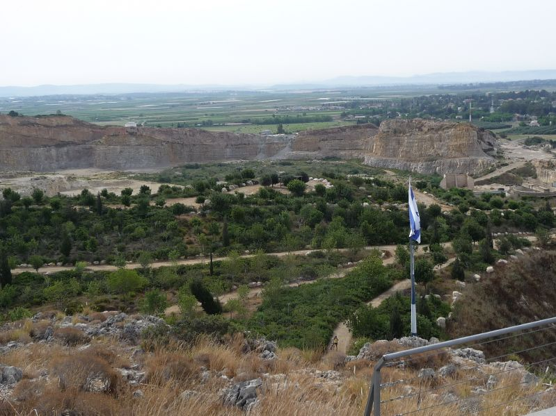 Geography of Israel